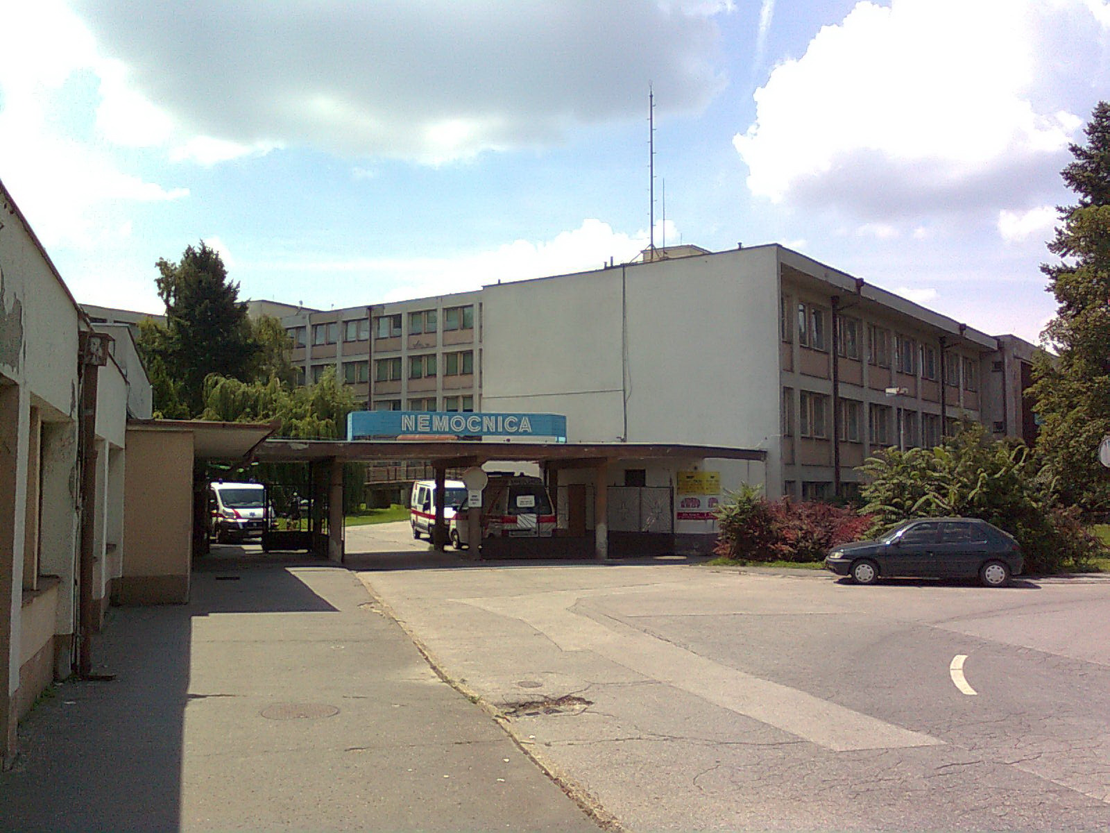 Šaľa, hospital